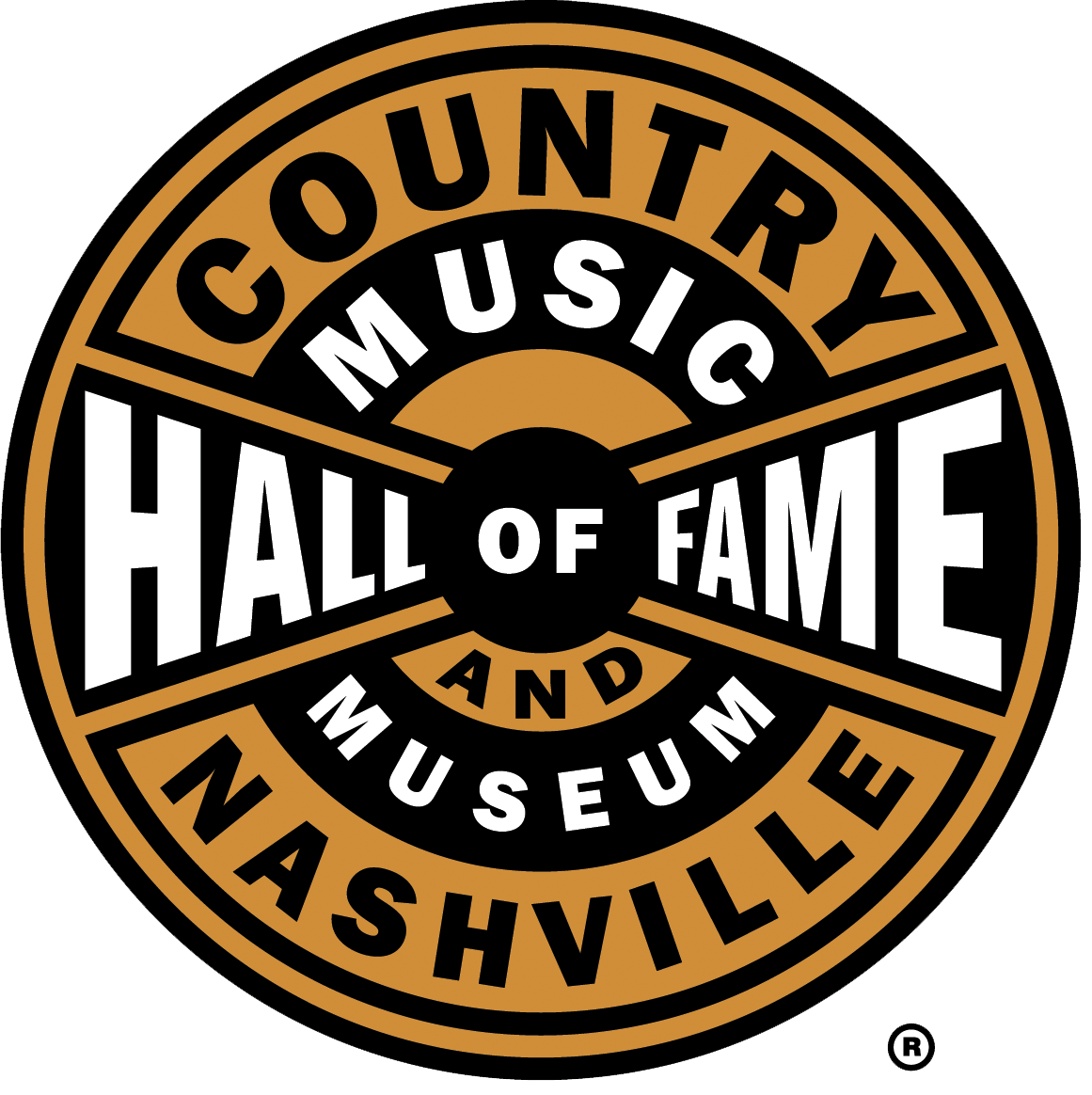 The Country Music Hall of Fame and Museum logo